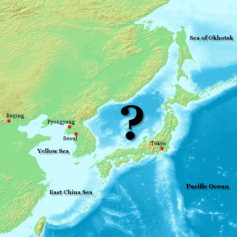 The Name "Sea of Japan" is disputed by North and South Korea. Therefore, instead of a name a question mark is written on the map.